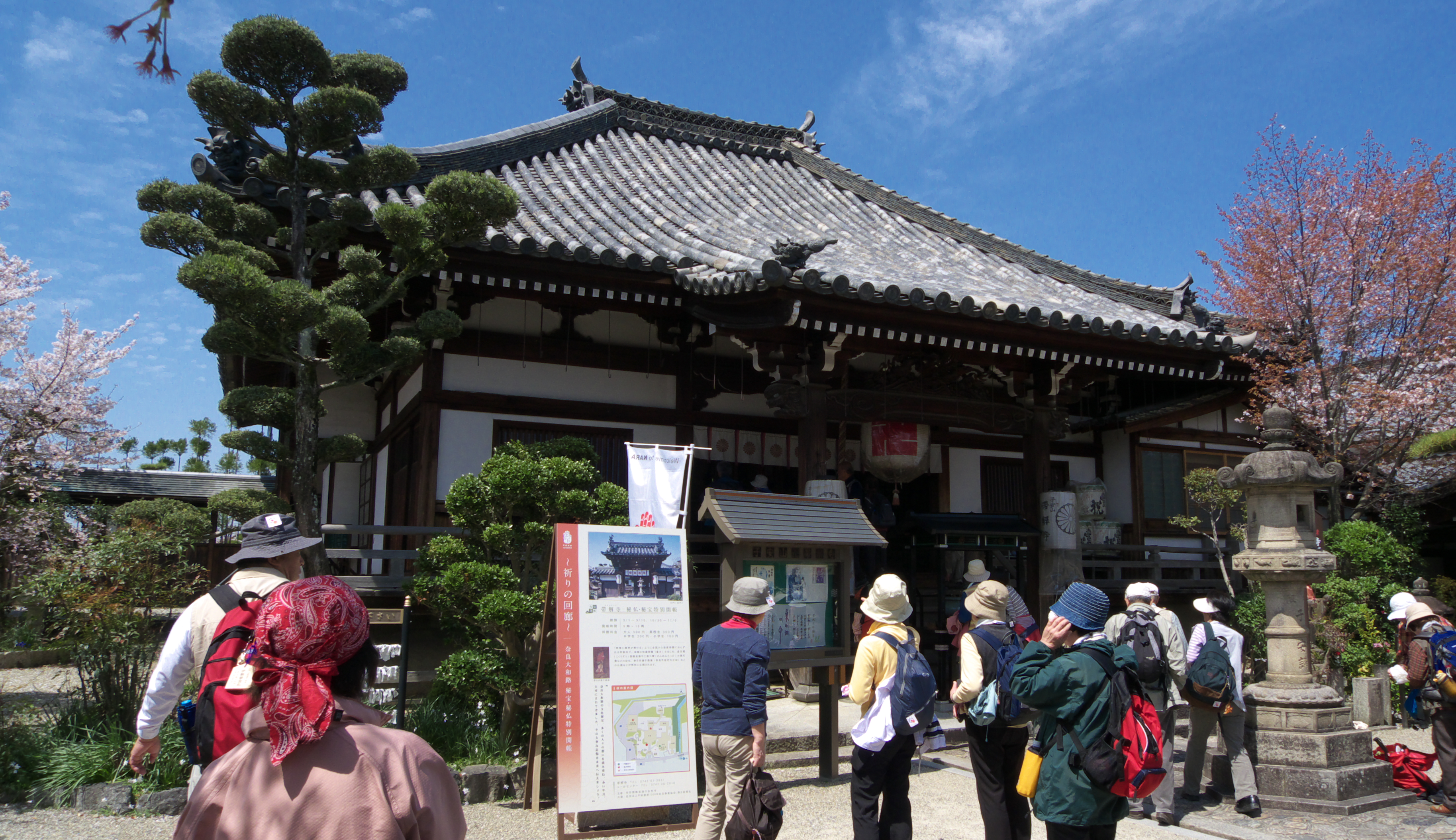 Obitokedera Temple is a Buddhism temple in Nara city, Japan.